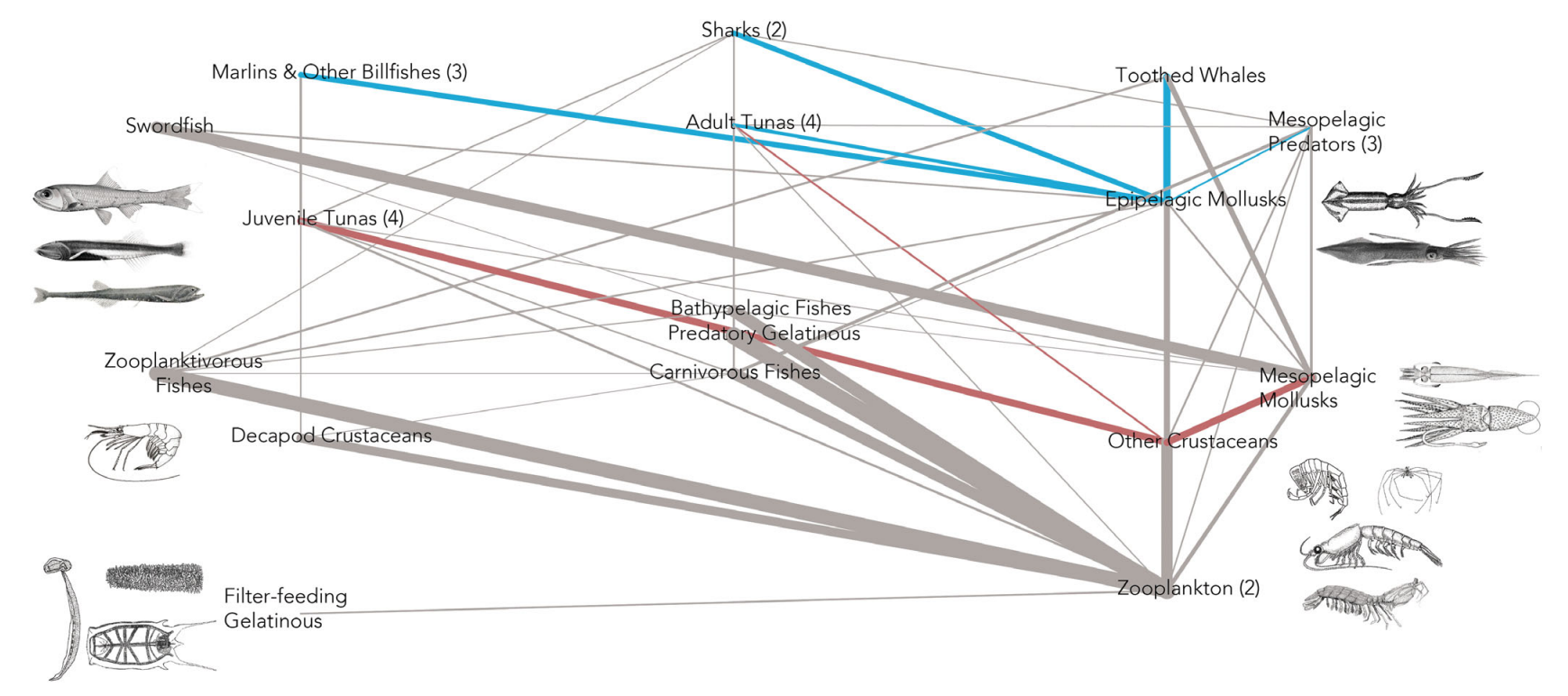 Role of micronekton in pelagic food webs. Simplified food web diagram showing the energy flow through key micronekton and top predator functional groups. Diet proportions 5% or greater (from the balanced diet matrix) are shown between groups, where the thickness of the lines is scaled to parameterized diet proportions. Numbers in parentheses next to group names indicate the number of pooled functional groups within that group, and diet fractions are averaged for included groups. Colored lines highlight the energy pathways of "other crustaceans" (red) and "epipelagic mollusks" (blue) through the food web